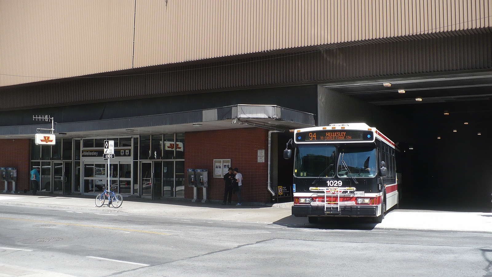 Wellesley subway station in Toronto. TTC bus on route 94 exits the bus platform at street level.